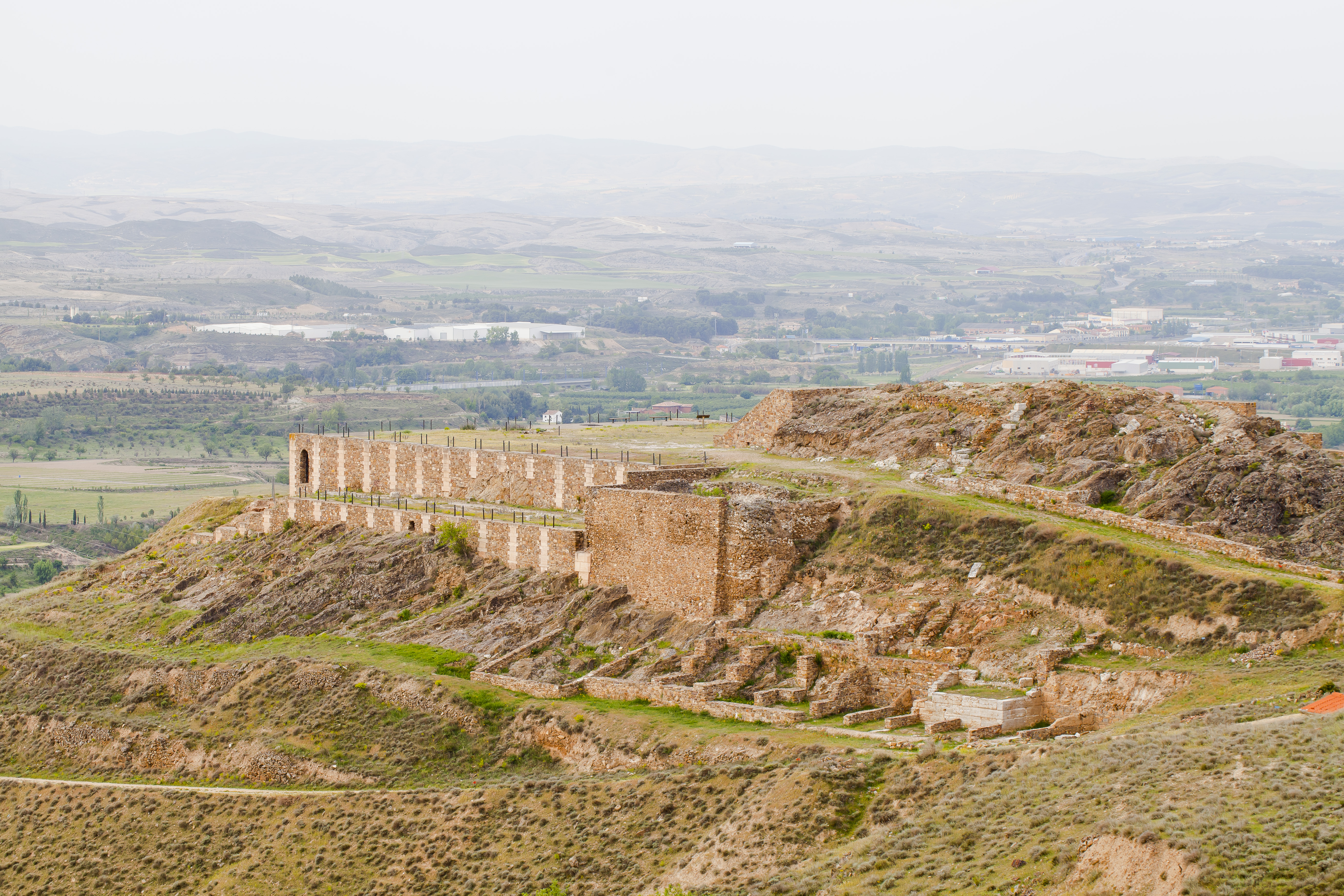 Ruins of the ancient roman city of Bilbilis, Calatayud, Spain